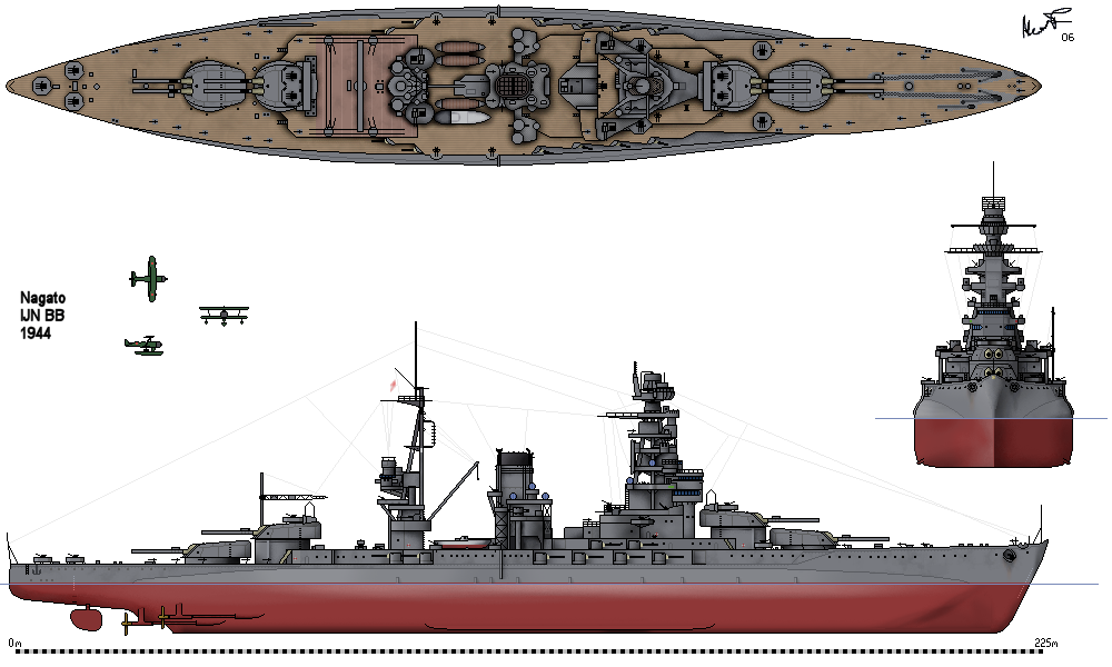 3 view drawing of IJN Battleship Nagato in her mid-1944 configuration.